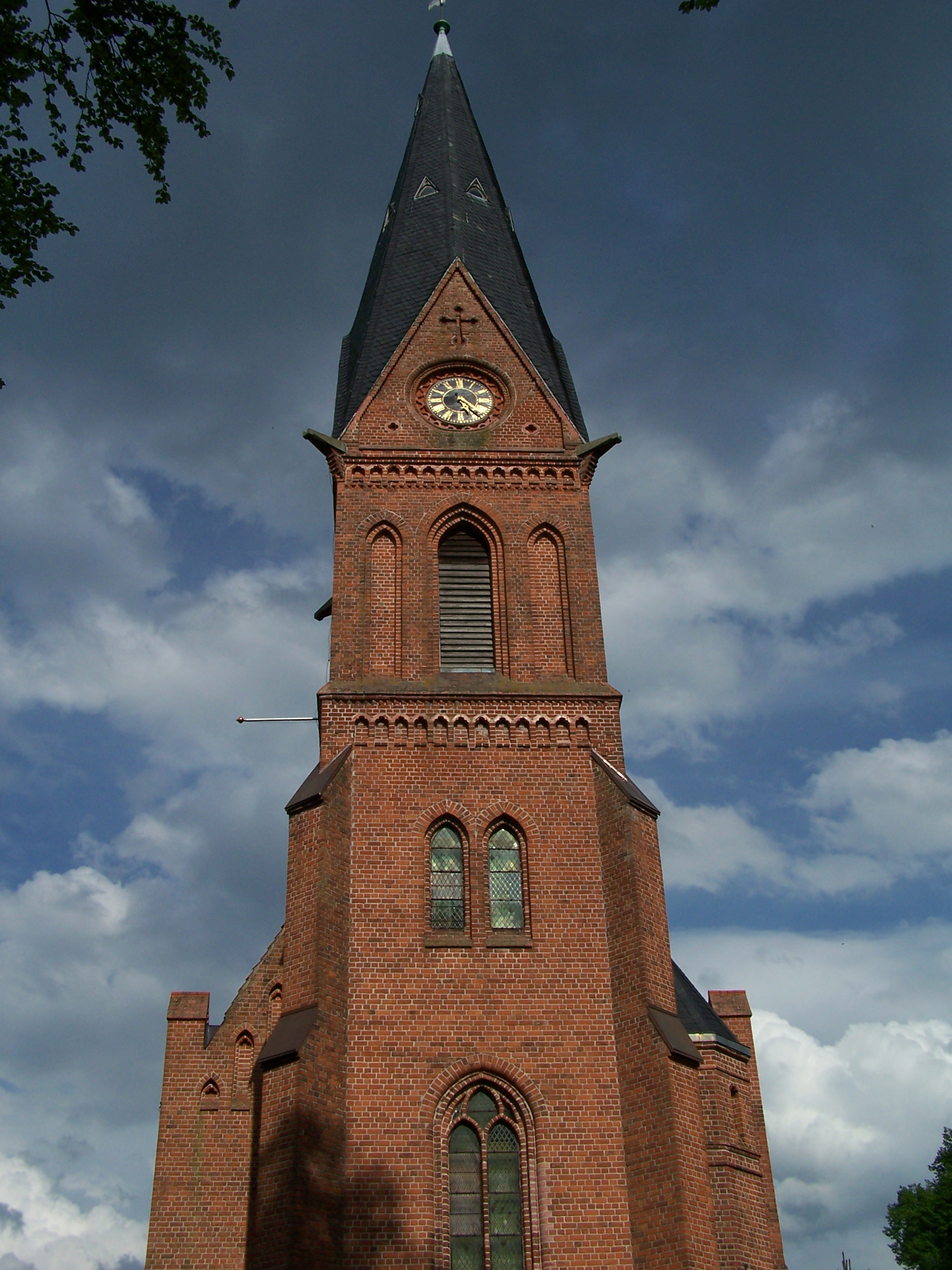 Church in Ramelsloh, Lower Saxony, Germany